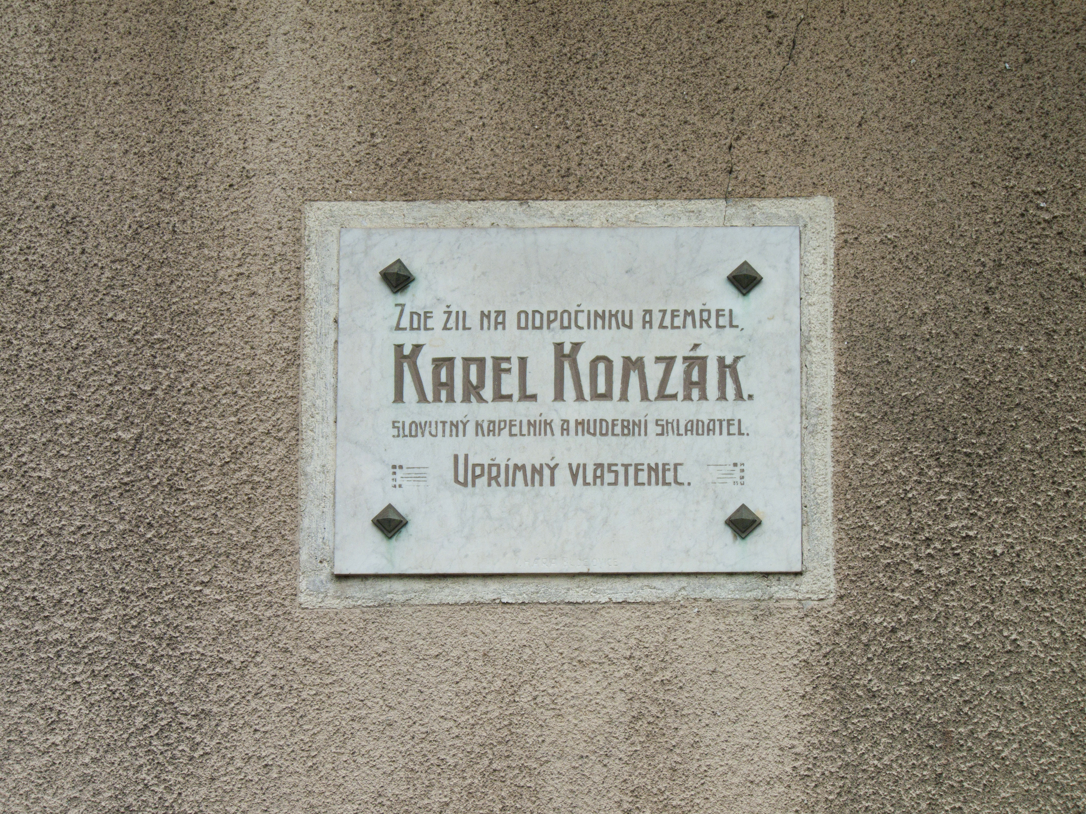 Memorial plaque commemorating the birthplace of the composer Karel Komzák (1823 - 1893), house No 22, in the village of Netěchovice, České Budějovice District, Czech Republic